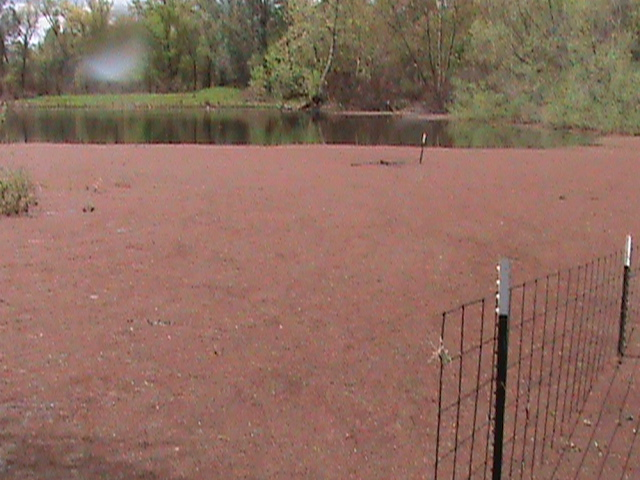 Azolla filiculoides carpeting a pond.